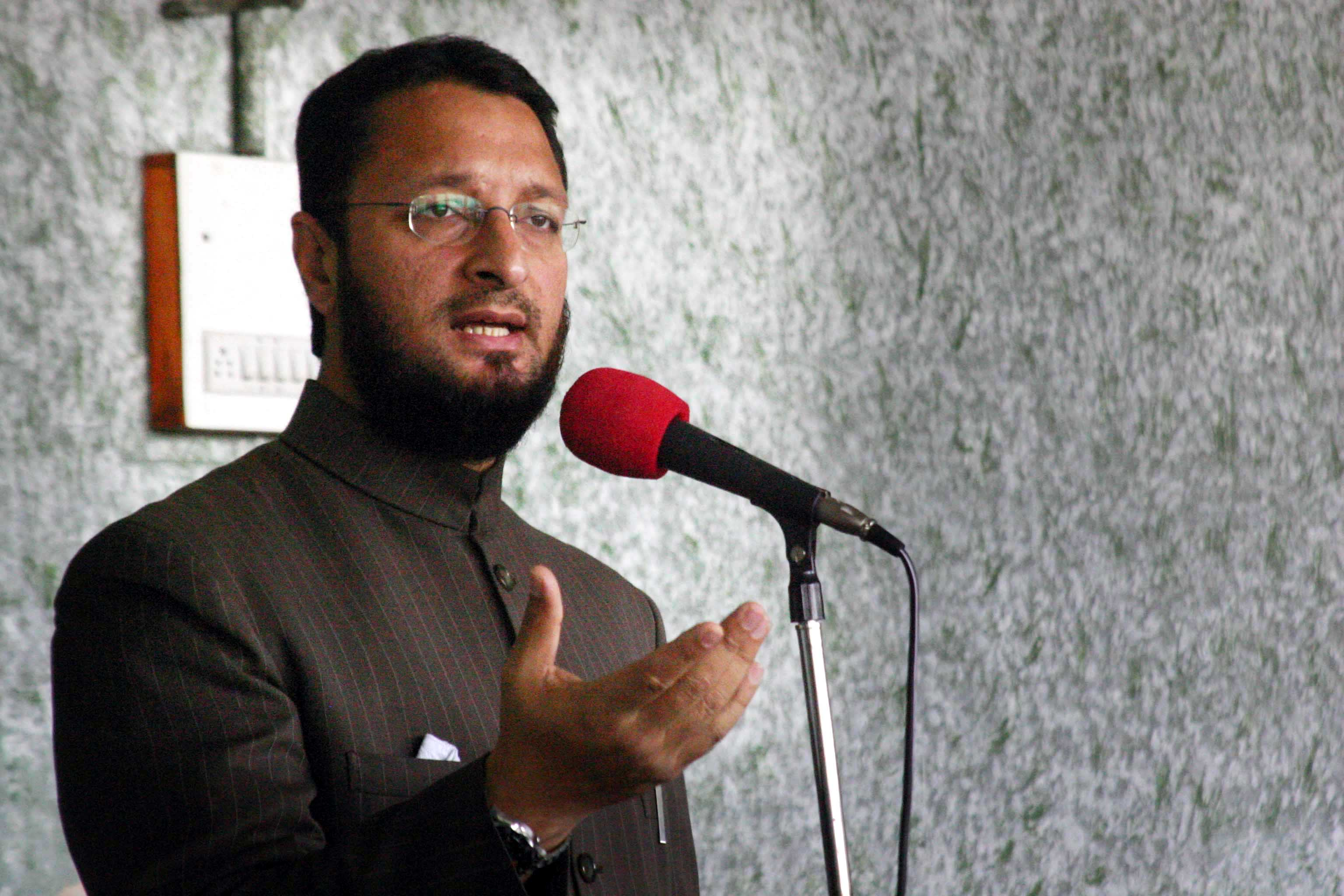 MIM Media and Information Center